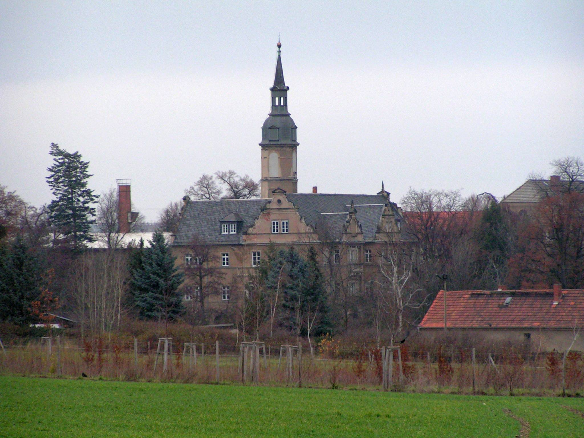 Dresden, Germany, Schloss Roßthal